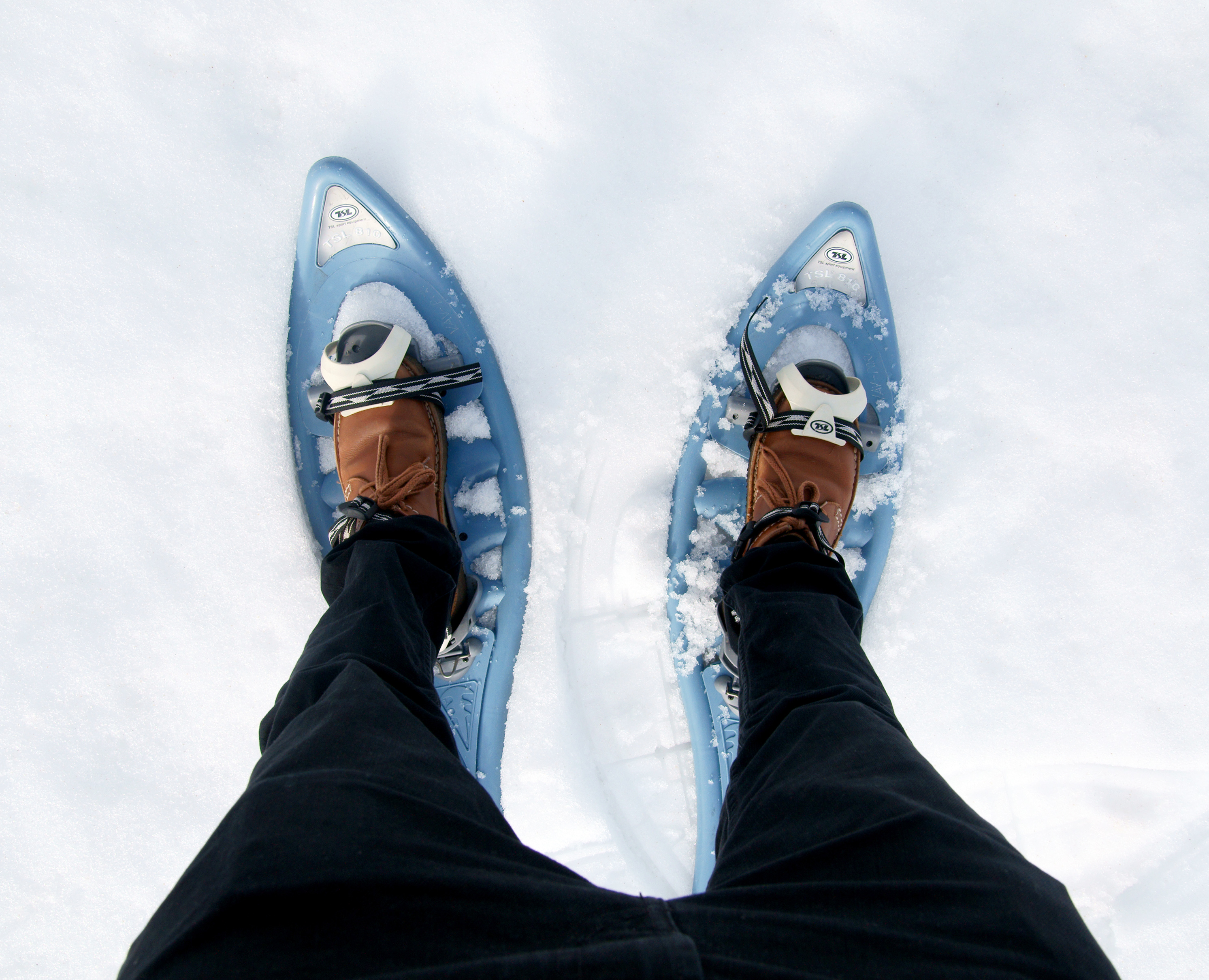 Snowshoes.